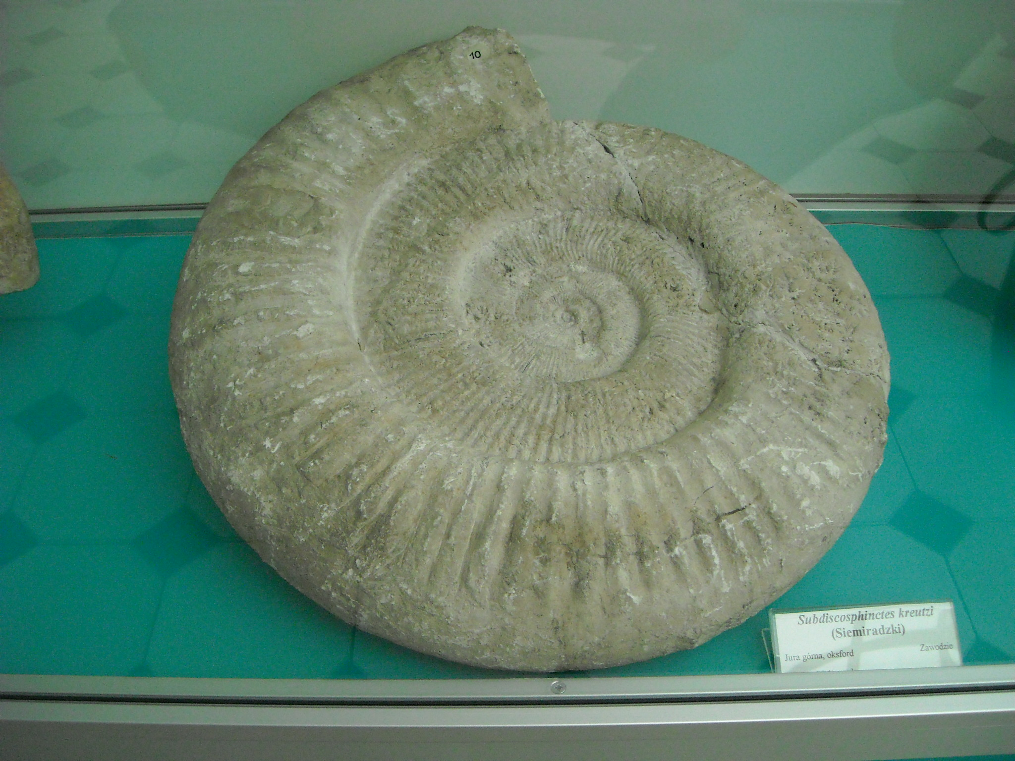 Fossil of Subdiscosphinctes kreutzi - an ammonite. This specimen comes from the Oxfordian of Poland.